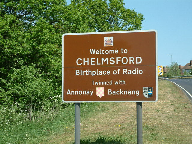 Road Sign, Chelmsford Marconi took over a former silk mill in Chelmsford in 1898 and established it as the world´s first radio factory - the Wireless Telegraph and Signal Company Limited. The Marconi Company´s manufacturing business in Chelmsford expanded so rapidly that a new factory was built in 1912 in New Street. In June 1920 the first publicised entertainment broadcast in England was transmitted from the New Street site when Australian prima donna Dame Nellie Melba sang at a concert sponsored by the Daily Mail. Permission was given to transmit regular entertainment broadcasts, and a station was set up at the hut at Writtle. Using its call sign Two Emma Toc (2MT), it began transmitting in February 1922.